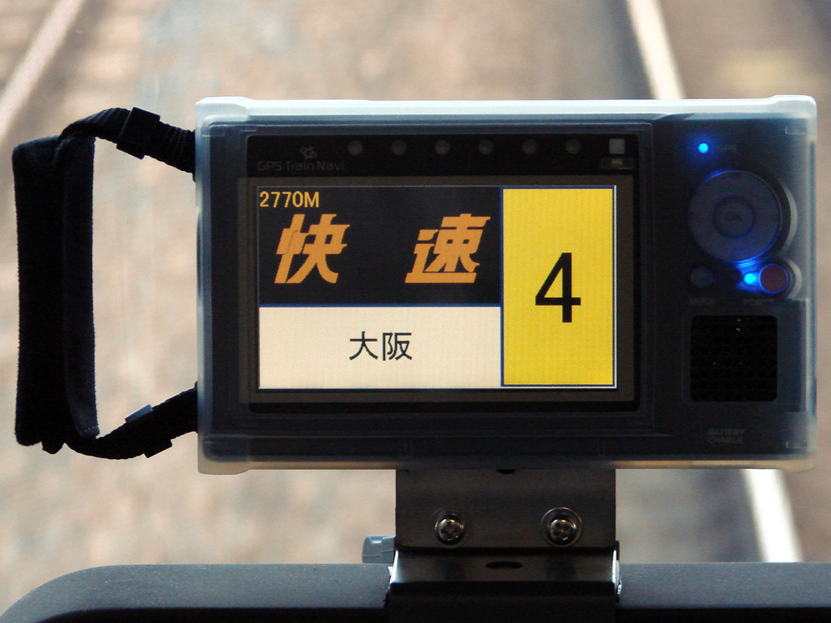 JR West GPS TrainNavi device